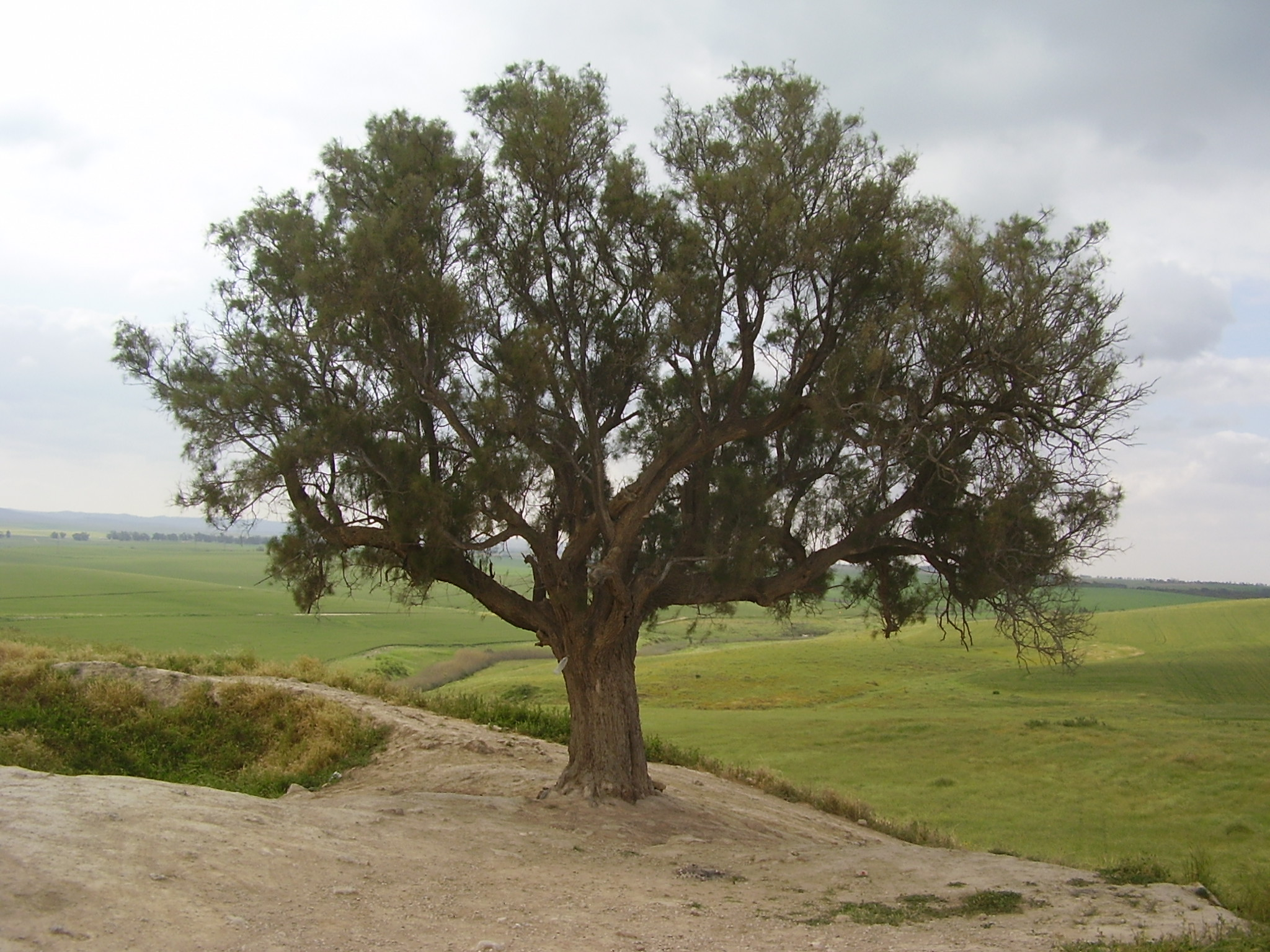 tamarix tree on tel nagila